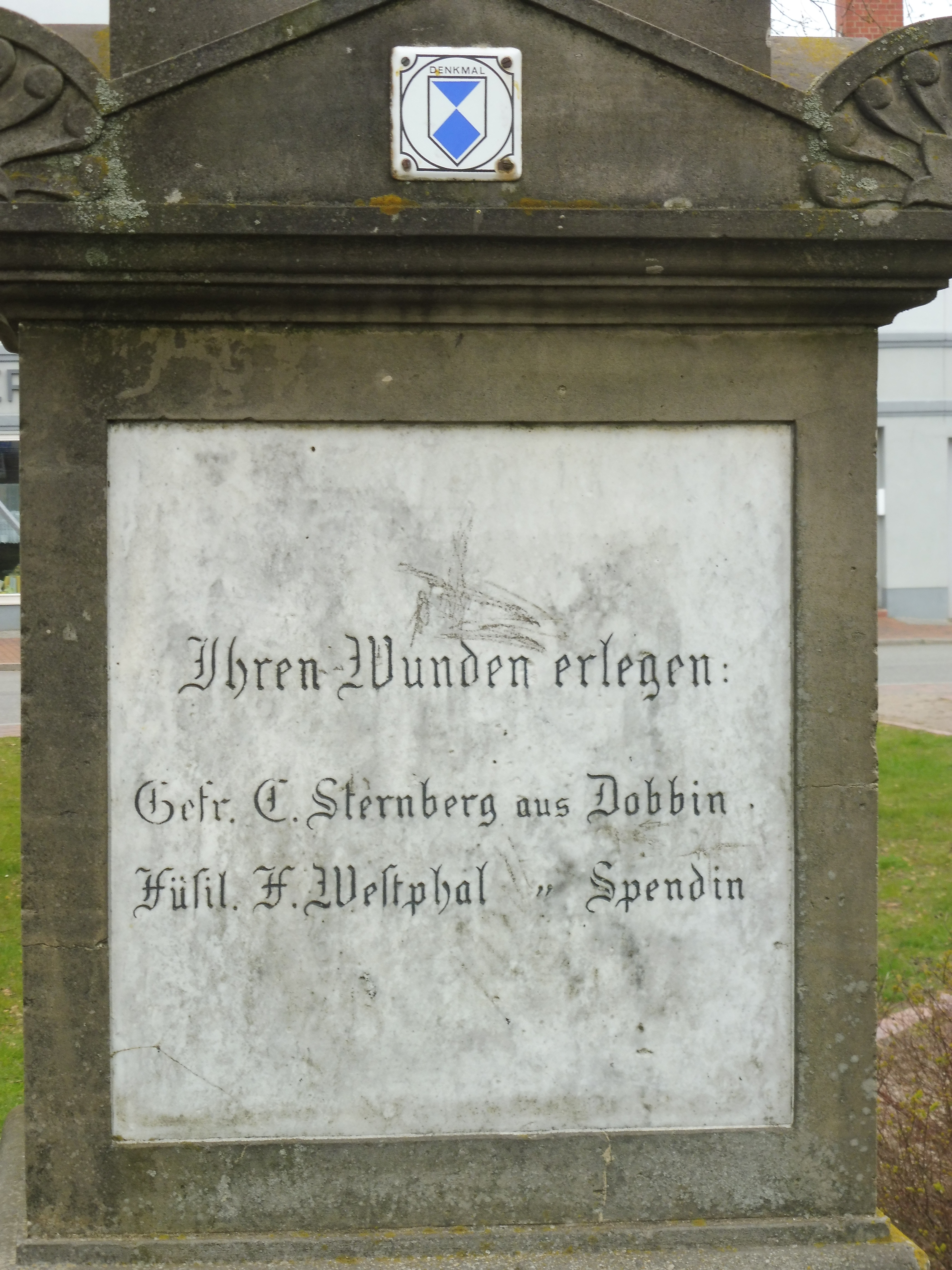 War memorial / victory column in Goldberg, district Parchim, Mecklenburg-Vorpommern, Germany